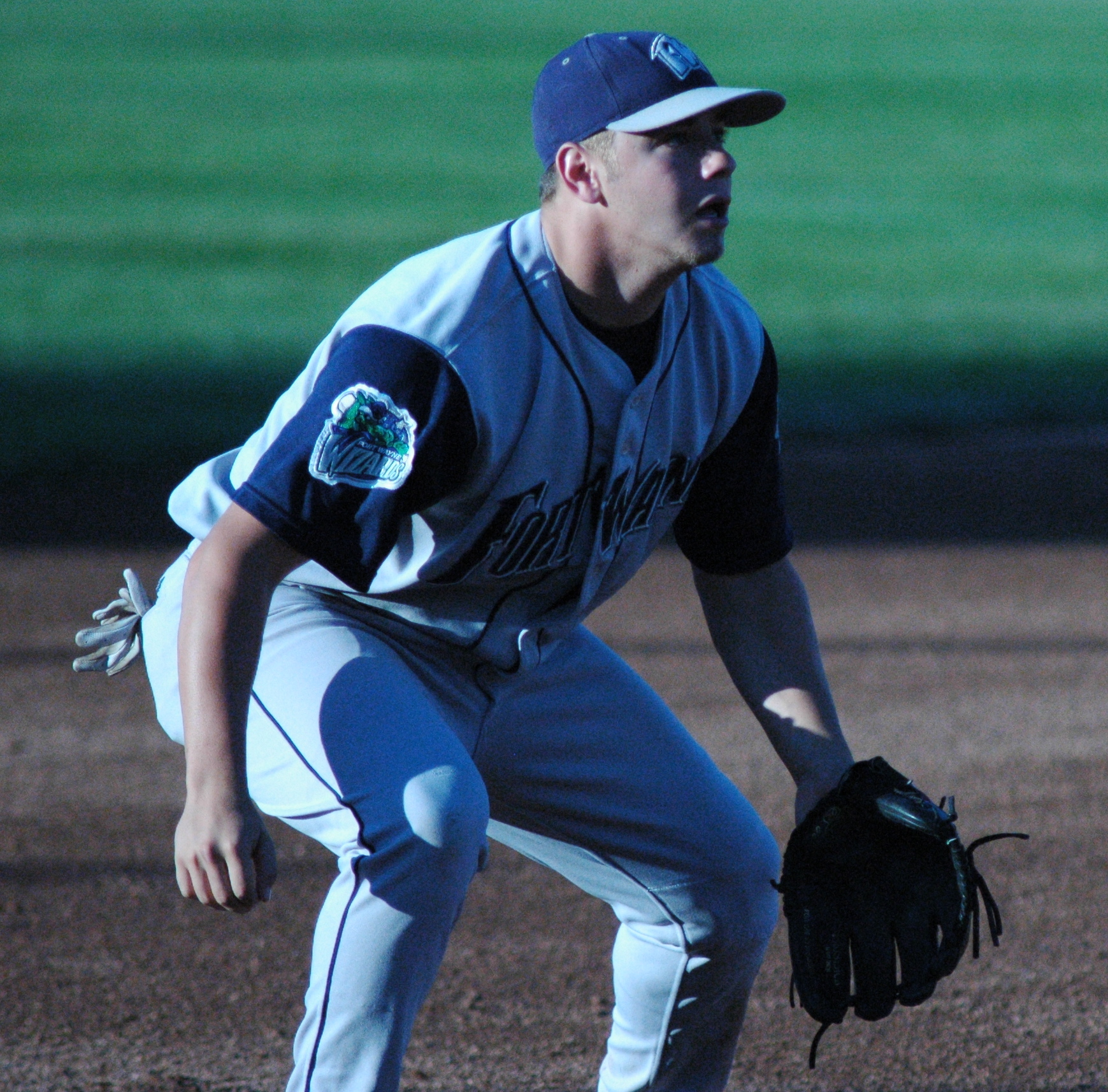 Peter Ciofrone of the Fort Wayne Wizards at Cooley Law School Stadium during a 2005 game in Lansing, Michigan